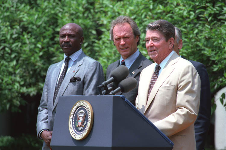 President Reagan speaking at a Take Pride in America event with actors Clint Eastwood and Louis Gossett Jr. in the Rose Garden. 7/21/87